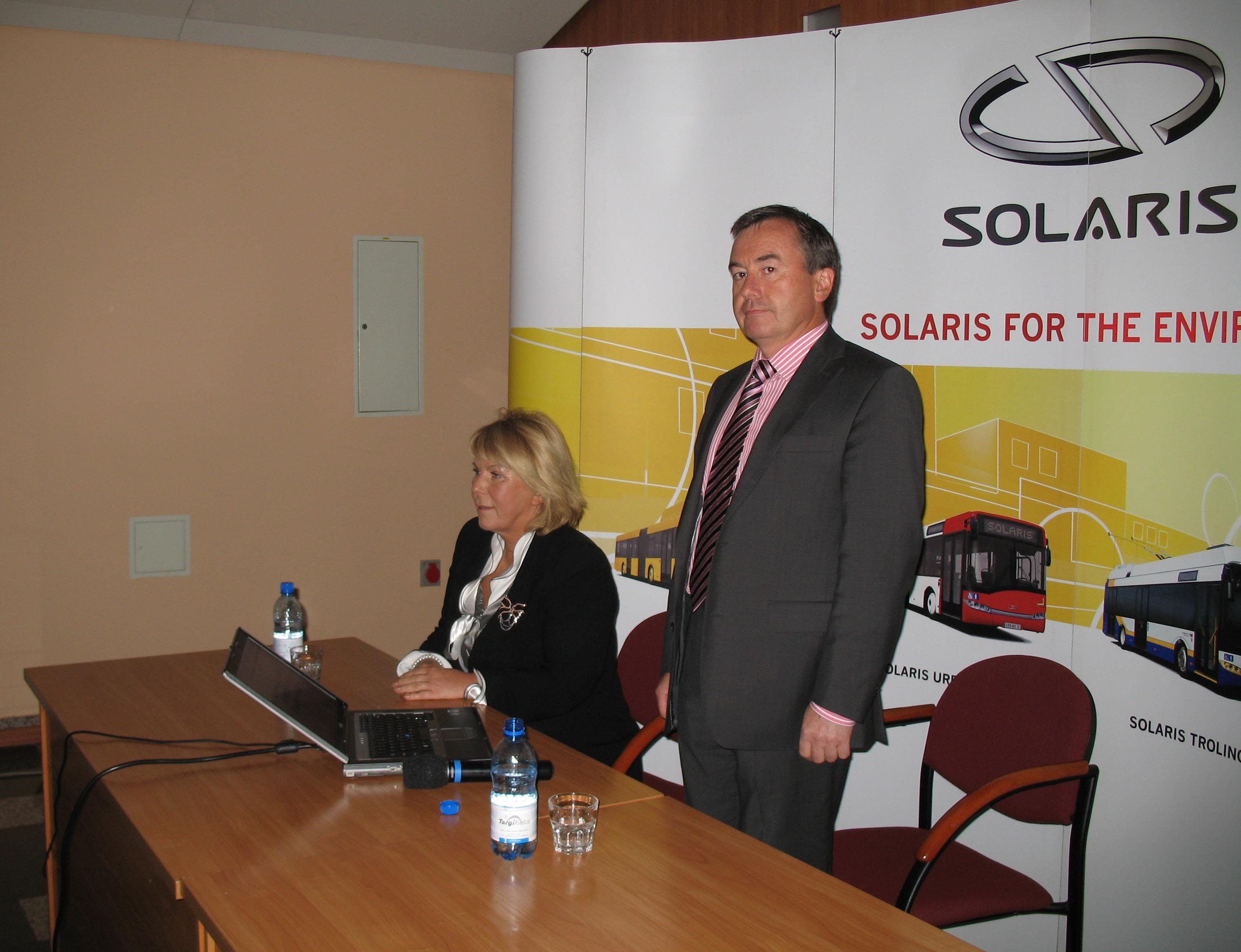 Solange Olszewska, Krzysztof Olszewski (speaking) - in Kielce, Poland. Transexpo 2008.